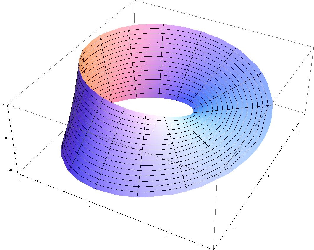 Mathematica plot of a Möbius Strip